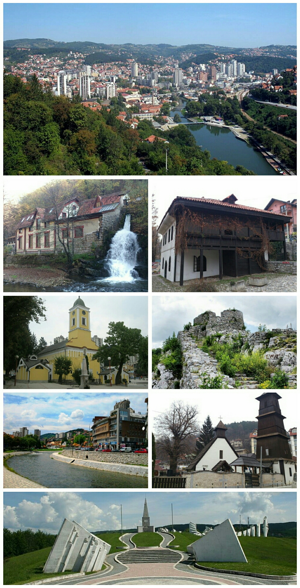 Užice Photomontage (View of the town from old fortress, Hydroelectric power plant on the river Đetinja, Jokanovic house, Church of St. George, Old town fortress near Uzice, River Đetinja, The old church of St. Peter, Kadinjača)